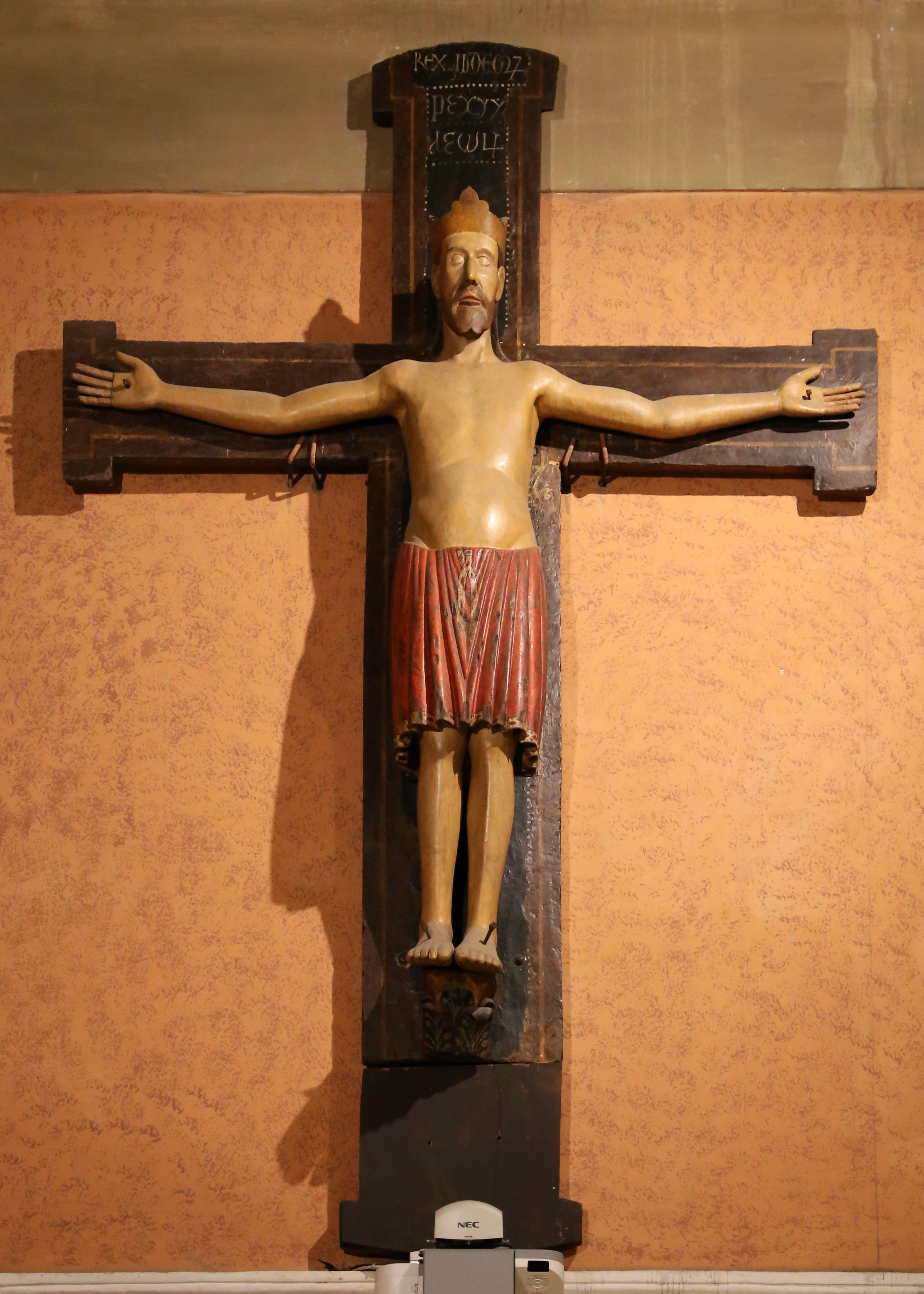 Duomo (Forlì)